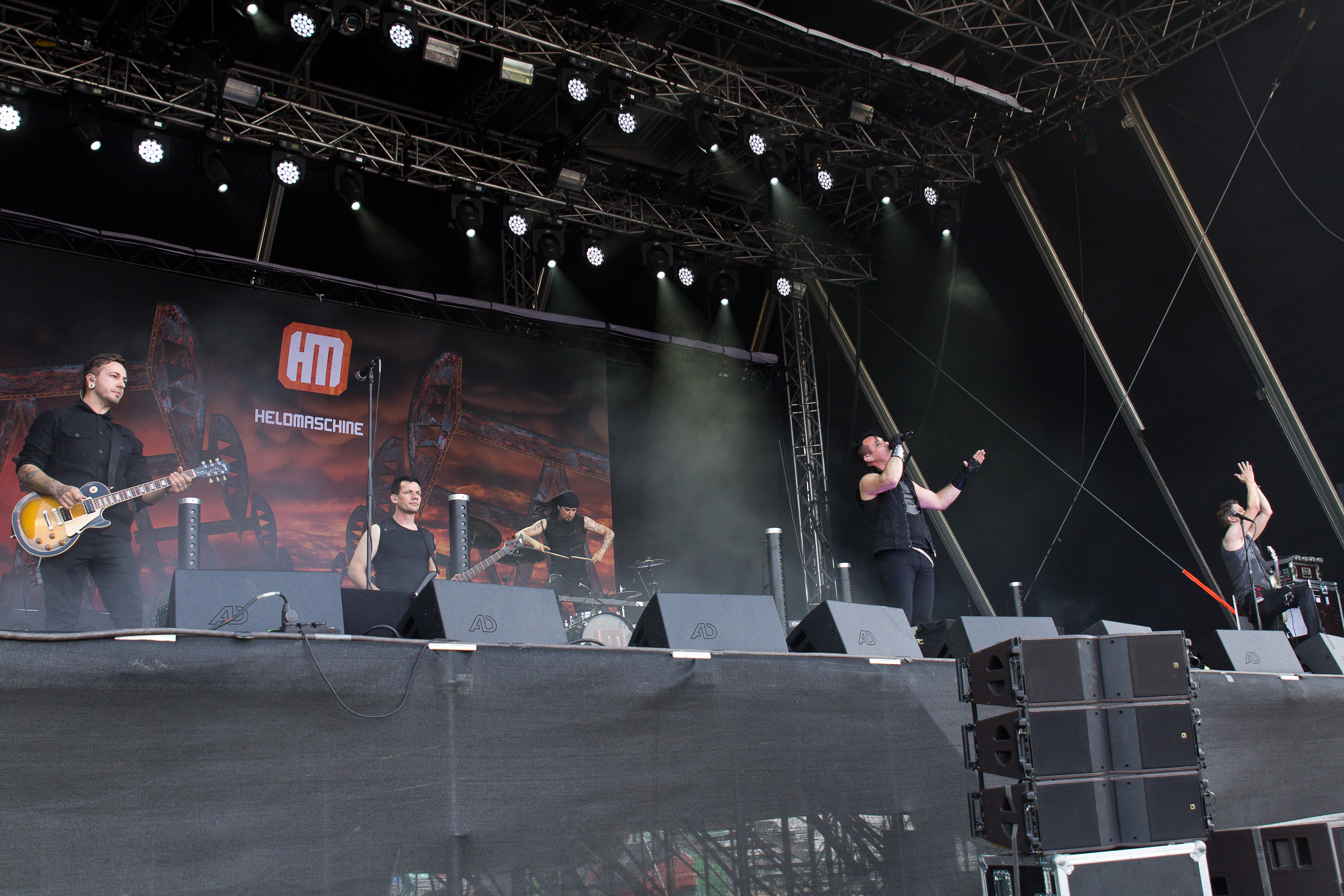 The German Neue Deutsche Härte band Heldmaschine at the Rockharz Open Air 2016 in Ballenstedt/Germany.